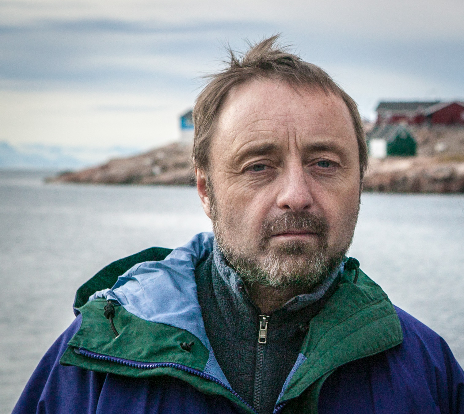 Headshot of Frans Lanting made by Paul Schraub.